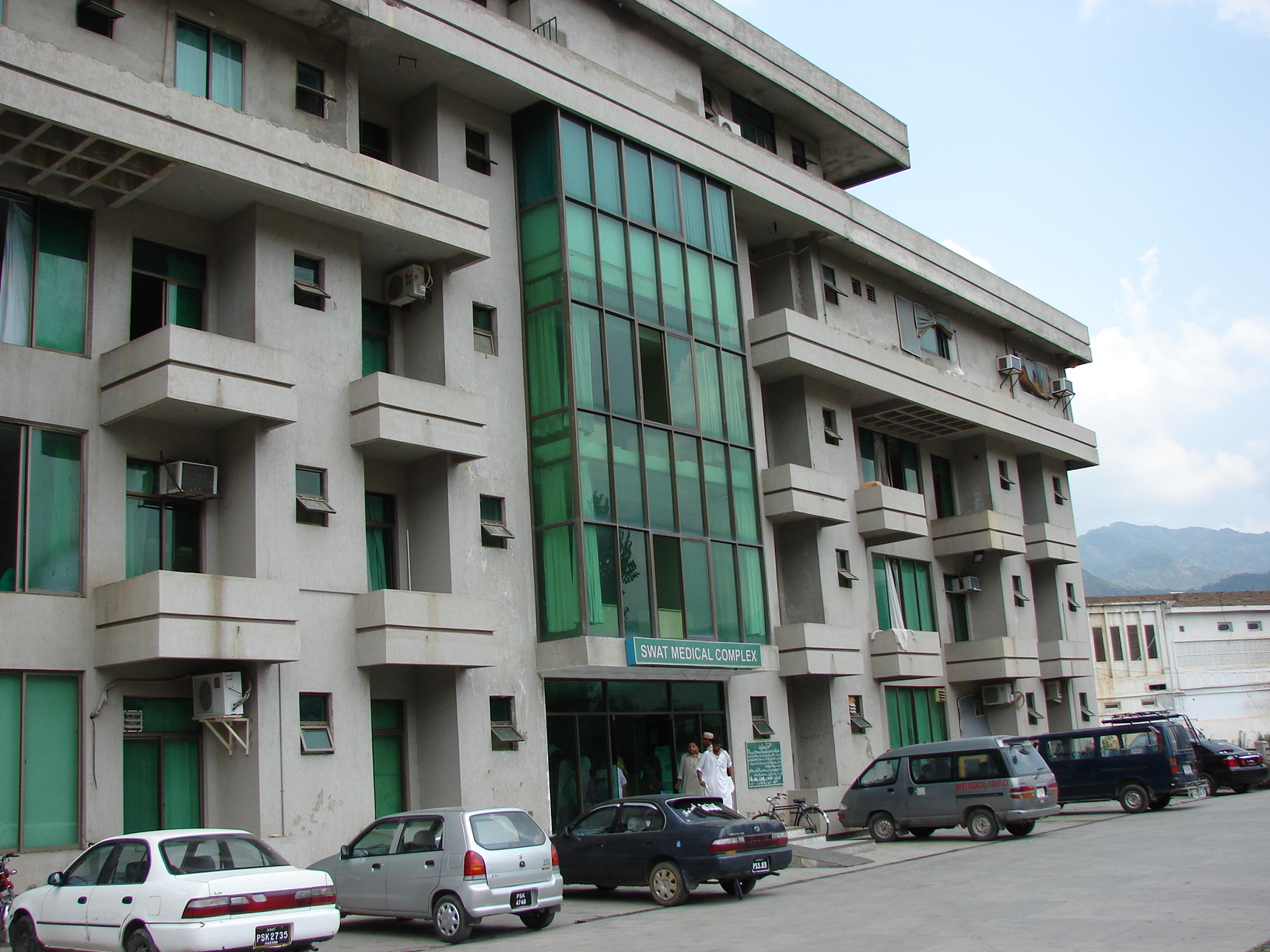 Swat Medical complex saidu sharif Swat